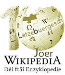 Logo ten years of lb.wikipedia, version 5